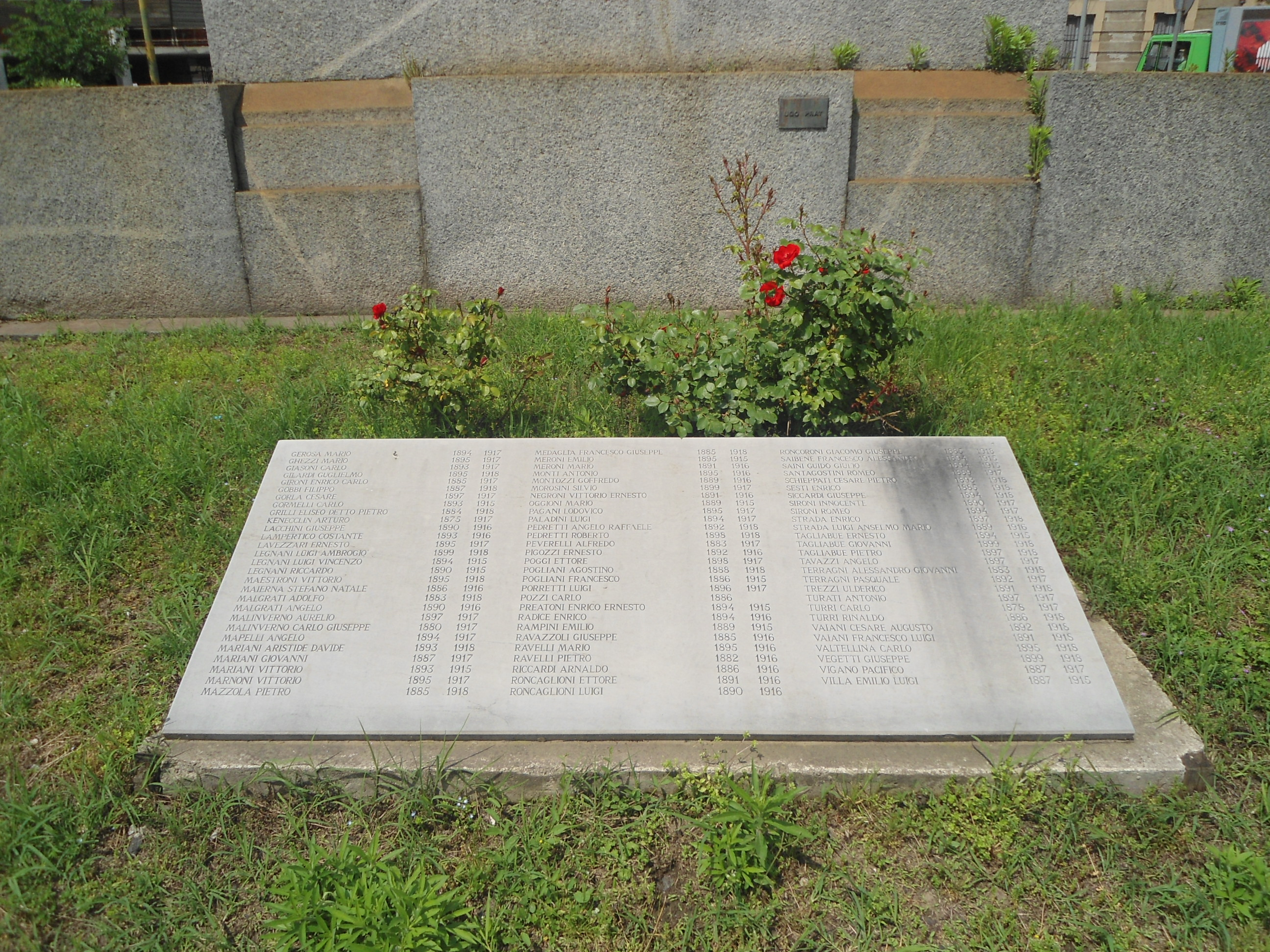 Commemorative stone of Musocco War Memorial to the south